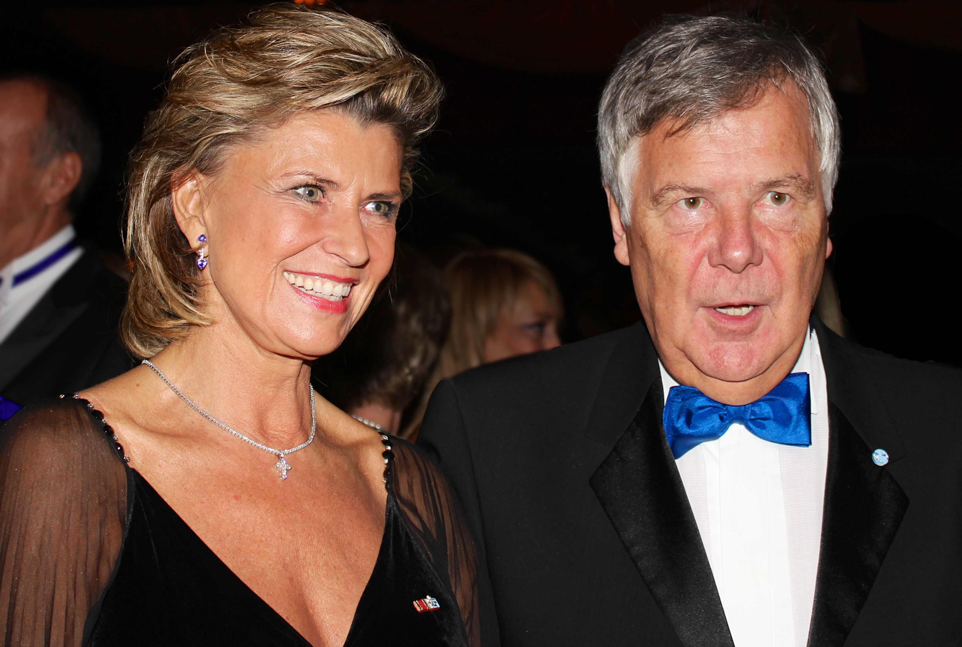 Dagmar Wöhrl, member of Bundestag (Germany) and Hans Rudolf Wöhrl, entrepreneur